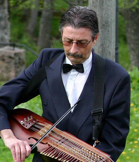 Ole Frantsen making a rare performance at a private wedding in 2006.